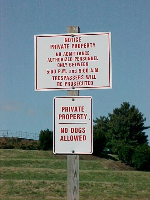 "Private property" sign at the George Washington Masonic National Memorial. Photo by Ben Schumin on September 28, 2002.